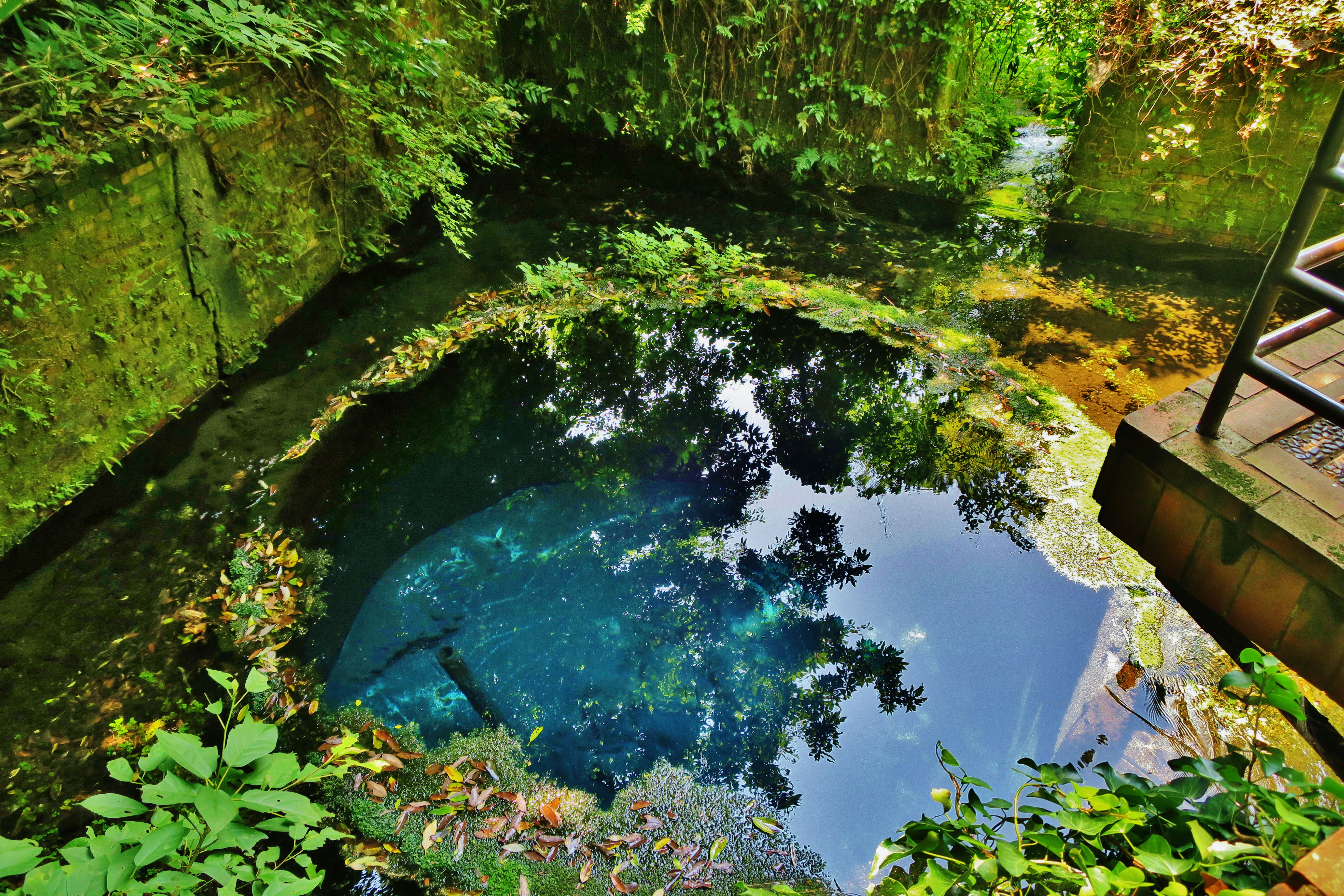 Kakitagawa Park.